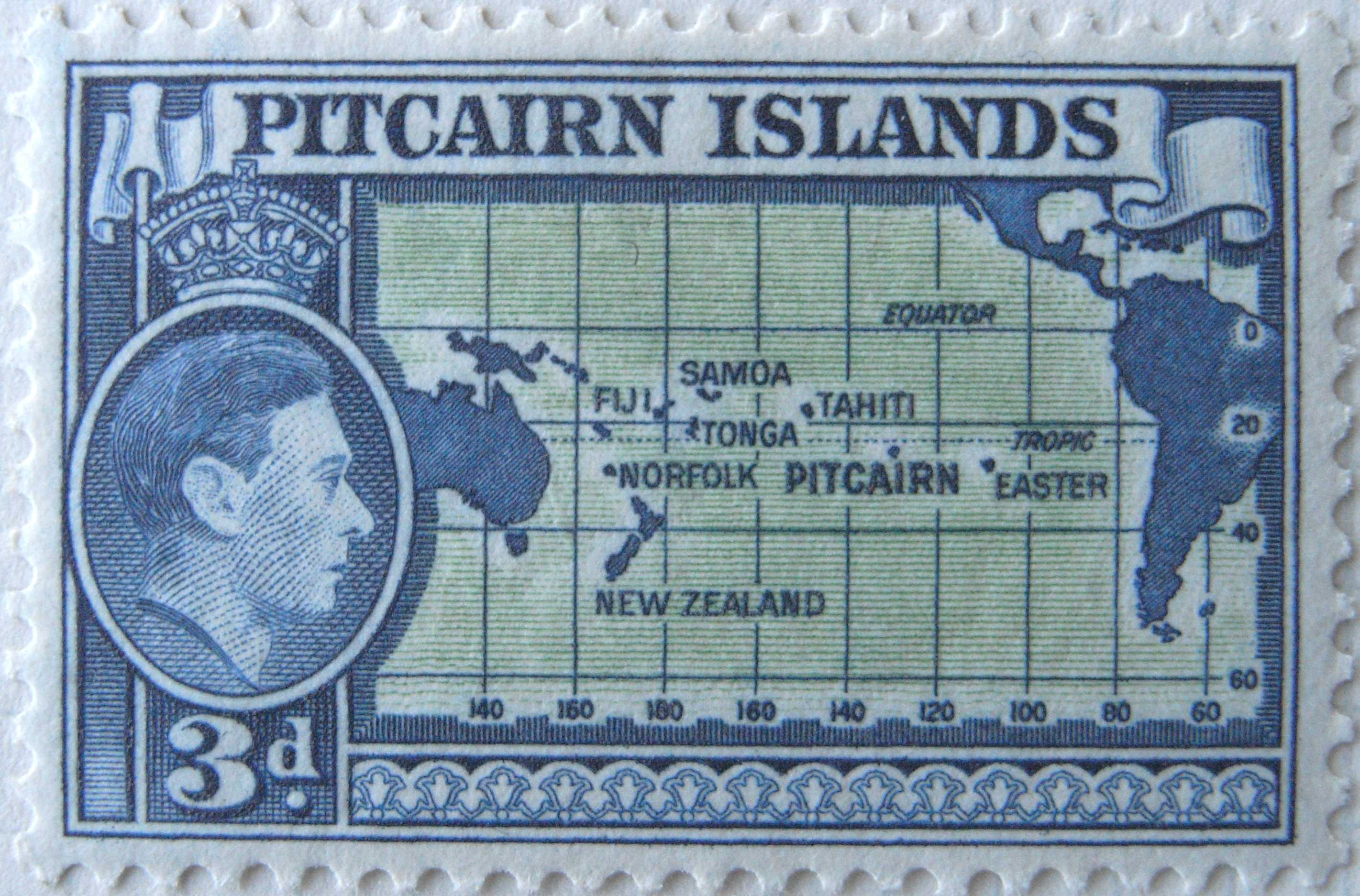 3-Pence stamp of the Pitcairn Islands